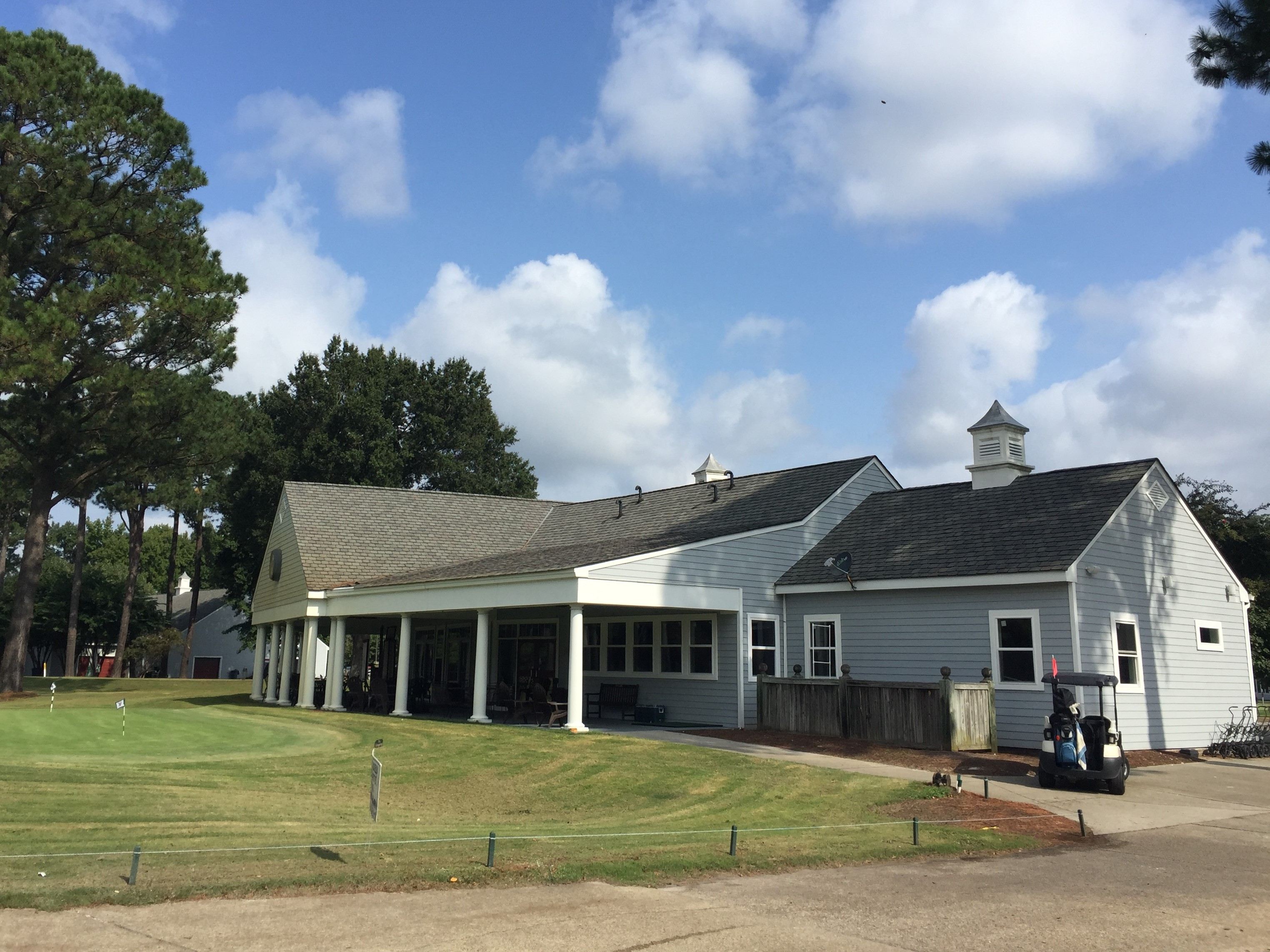 Bide-A-Wee Golf Course clubhouse